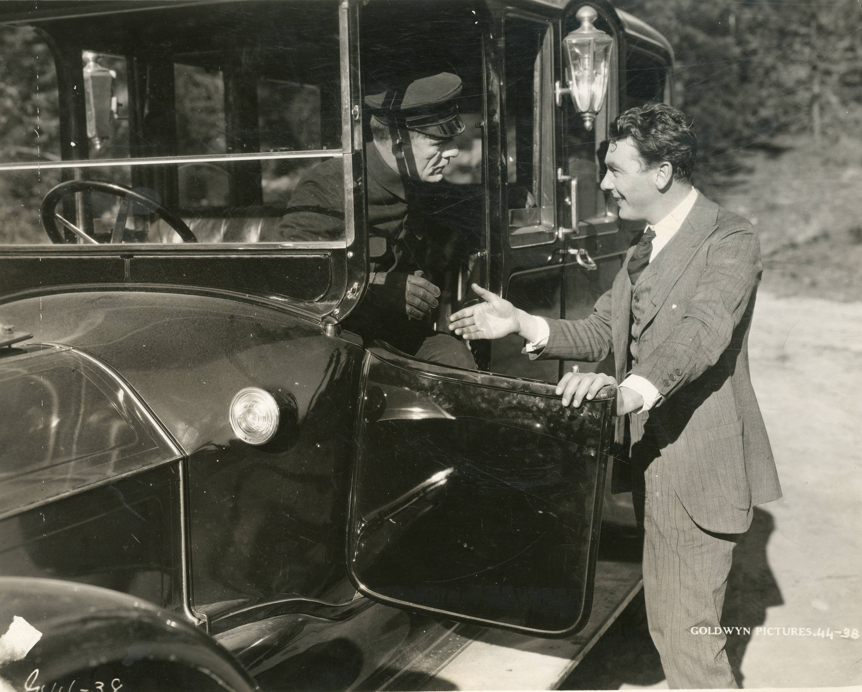 A scene from the American comedy film A Man and His Money (1919), with Tom Moore. Date stamped May 15, 1919. Subjects: motion pictures, actors